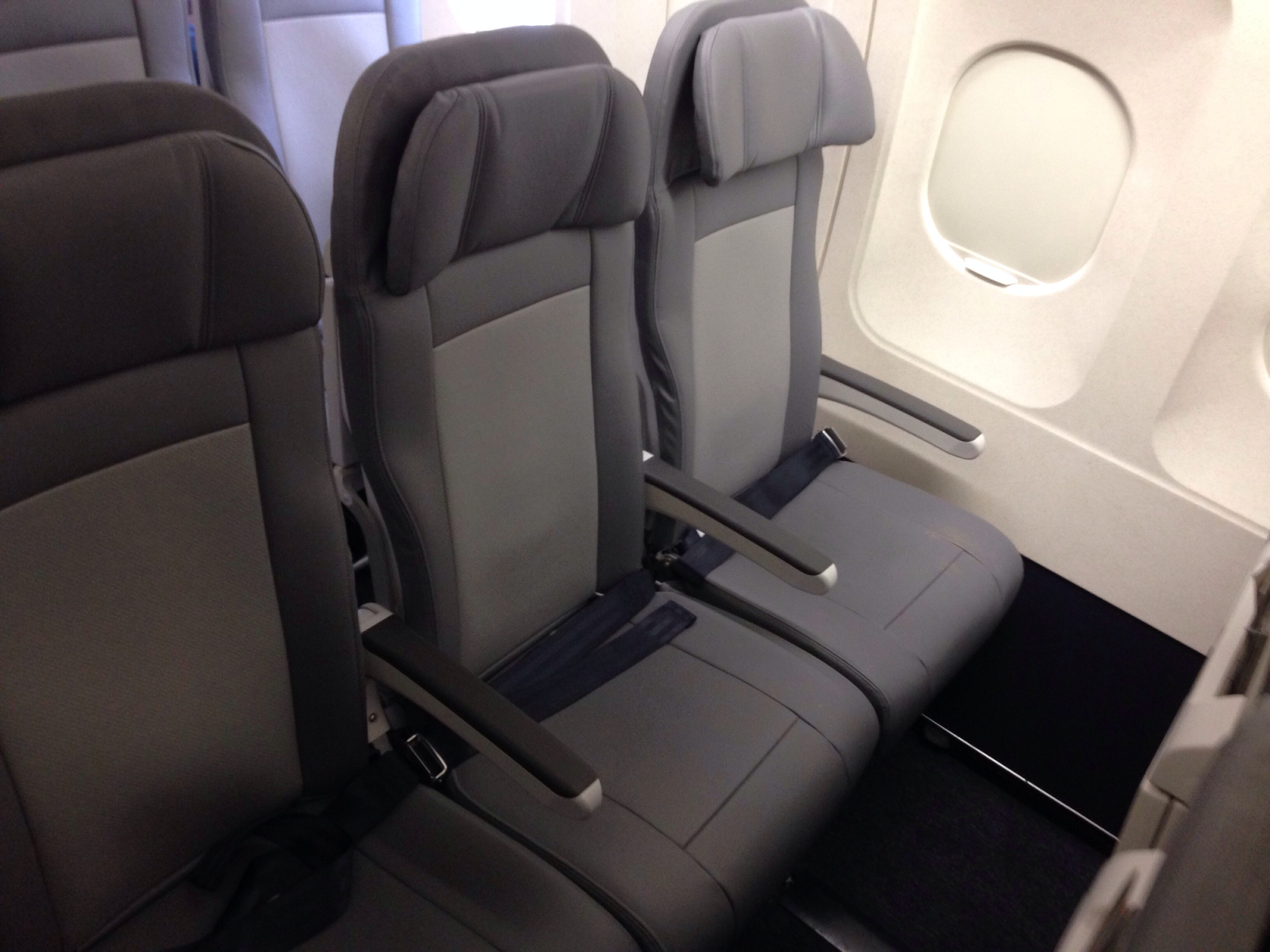 United's new Recaro seats